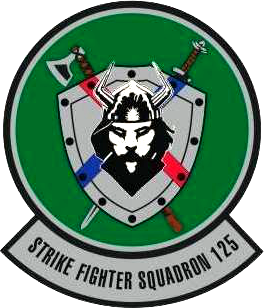 Insignia of the U.S. Navy Strike Fighter Squadron 125 (VFA-125) "Rough Raiders" in 2017.